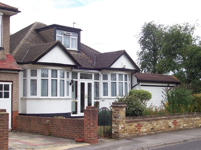 Cranley Drive, Ruislip The Portland Spy Ring The House that Spies Peter and Helen Kroger lived